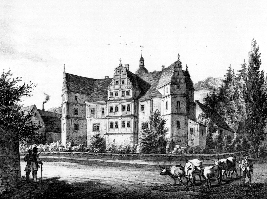 This image shows Rottwerndorf castle in Pirna.